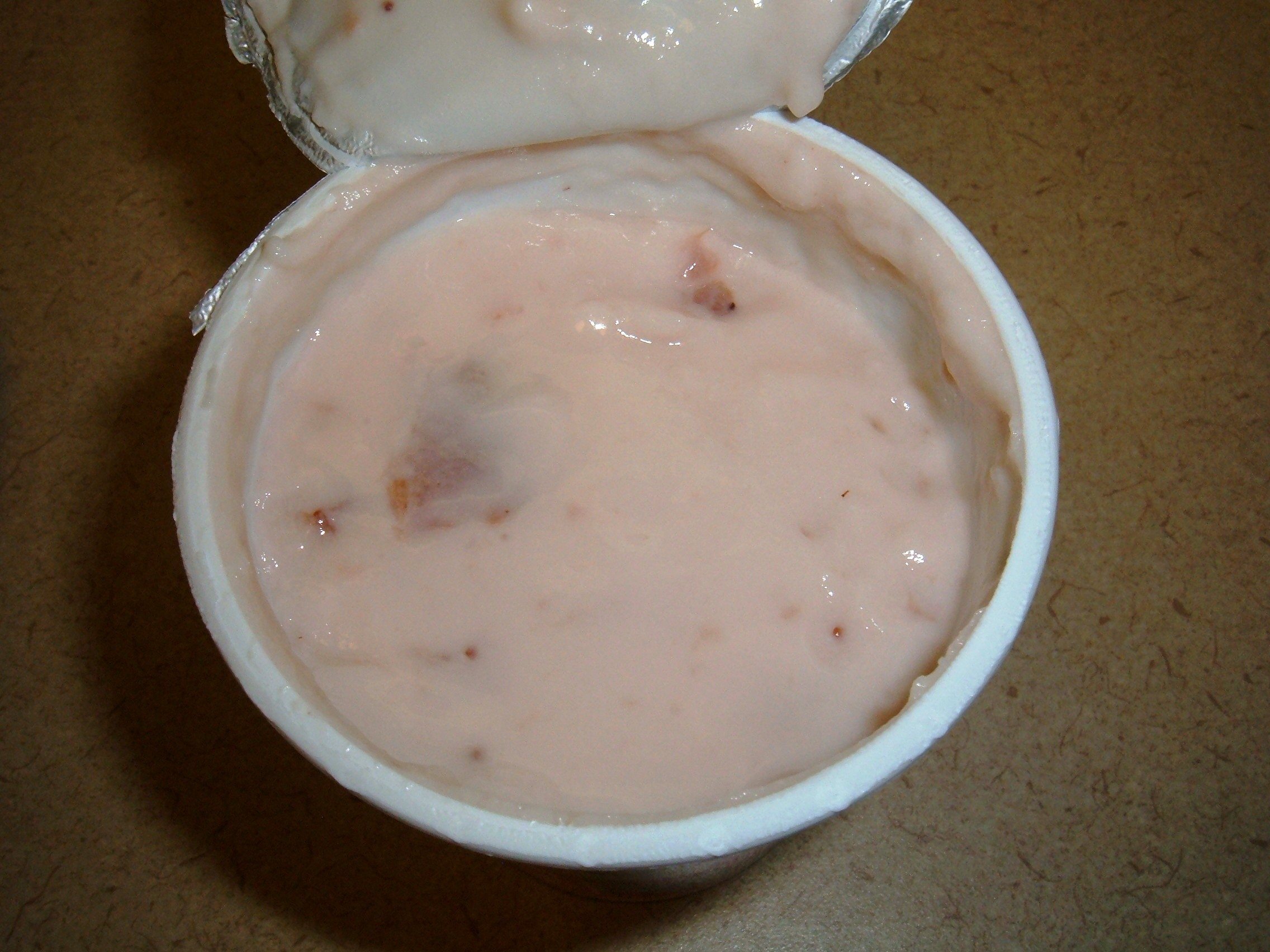 A cup of Kirkland Signature California strawberry yogurt.